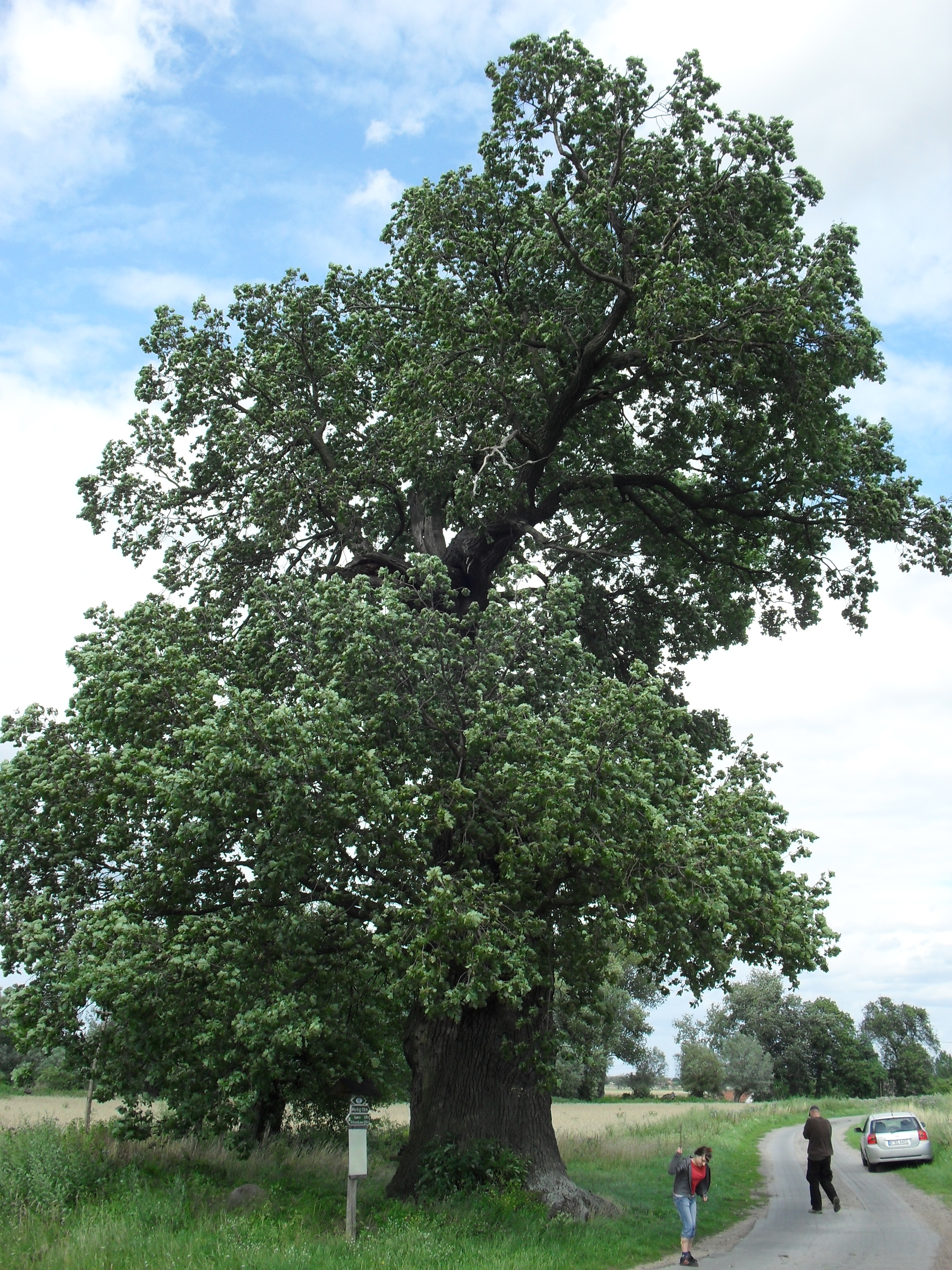 Derfflinger Oak between Gusow and Werbig, Germany